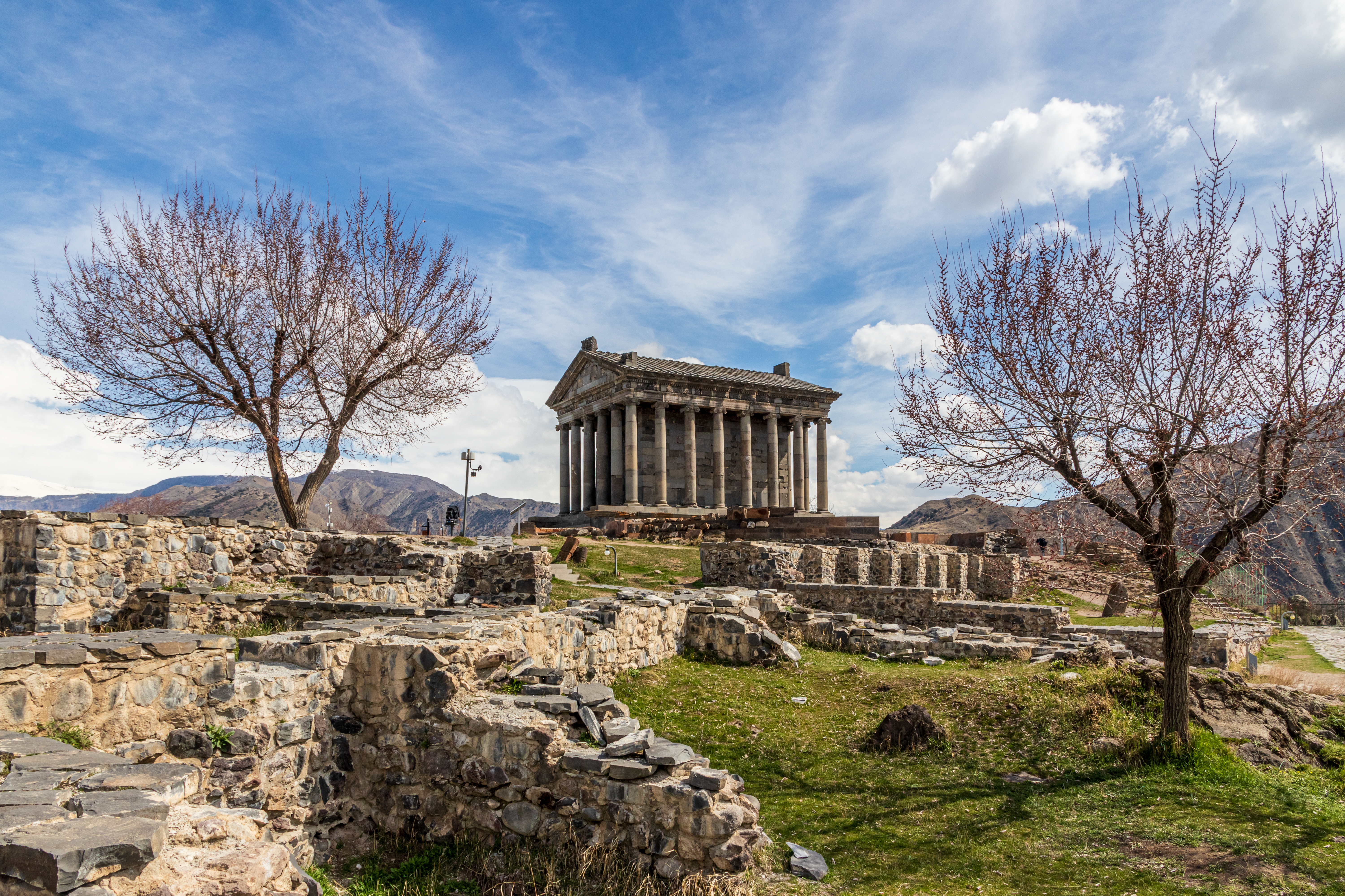 Temple of Garni. Garni, Kotayk Province, Armenia.